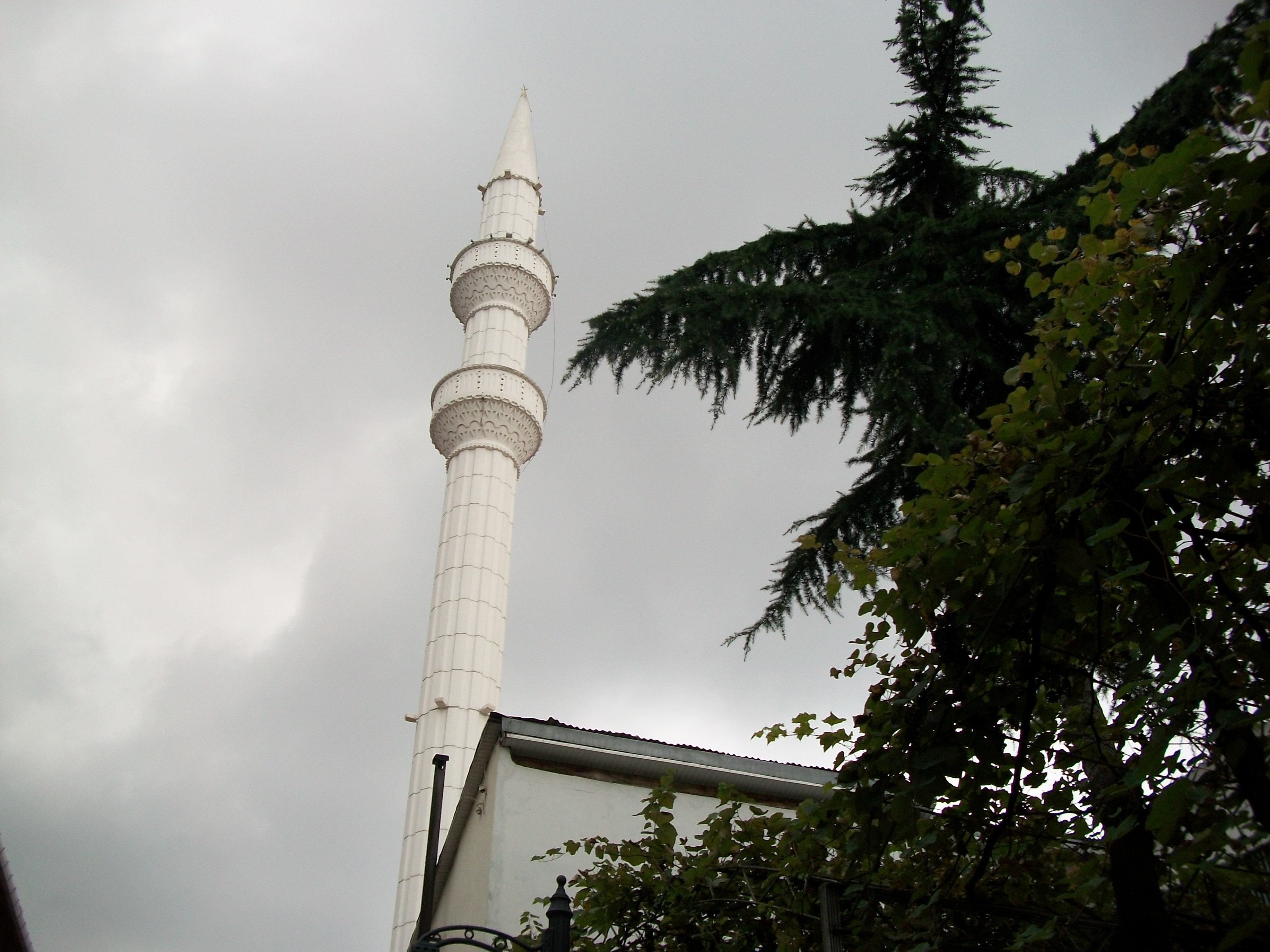 Mosque in the centre of Batumi